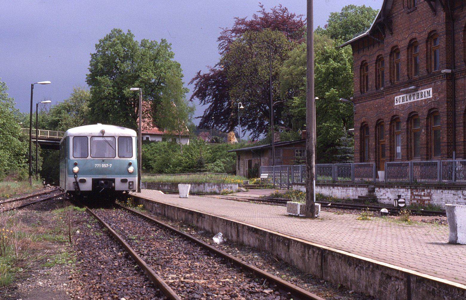 Former DR railbuses known affectionately as "Ferkeltaxe" and renumbered to class 771 once DB and DR merged. By the time this photo was taken on 21 May 1996, many had been repainted to the DB regional colour scheme of turquoise and white. Seen at the branch line terminus of Schlotheim, 771.057 is seen on train 14117, 13:45 Schlotheim to Mühlhausen (Thür). As with so many branches in the former East Germany, this line lost its rail service, in this case less than a year later.